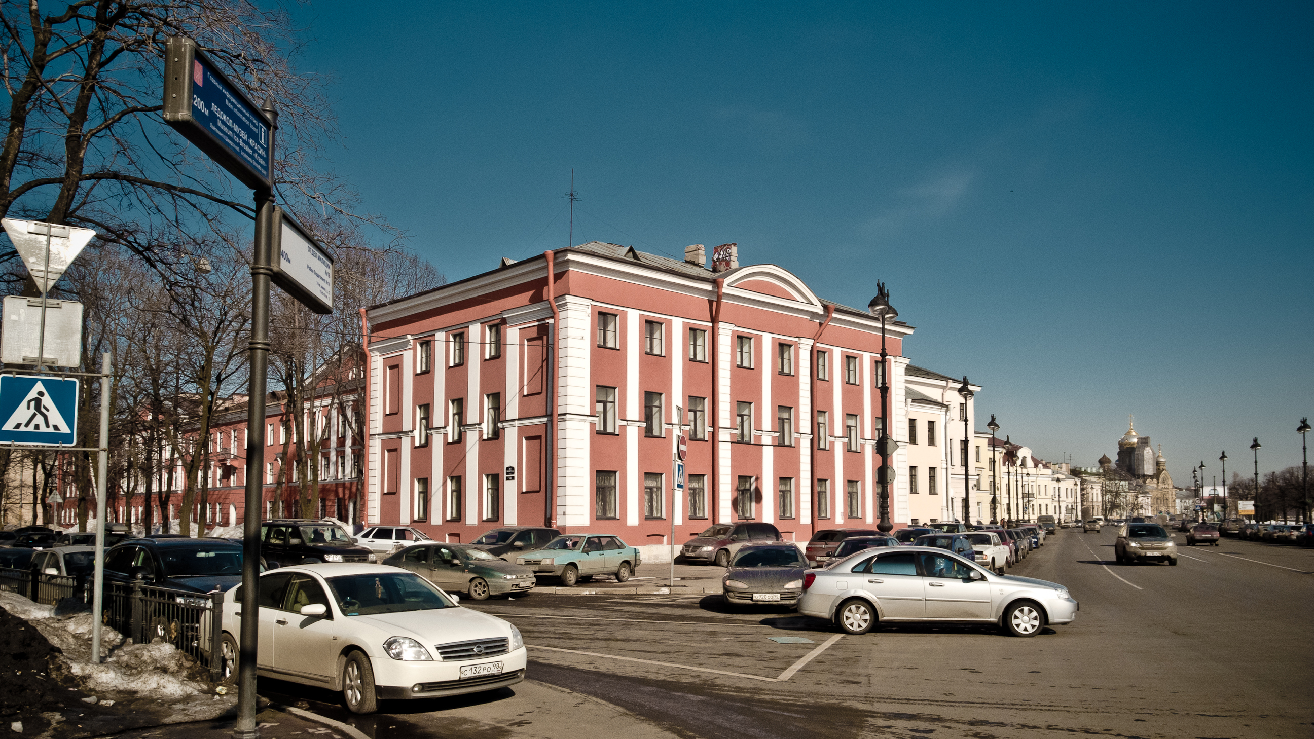 Finliandsky Regiment Quarters in Saint Petersburg